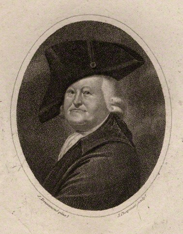 Portrait of Thomas Keyse (1722–1800), English still-life painter and proprietor of Bermondsey Spa.